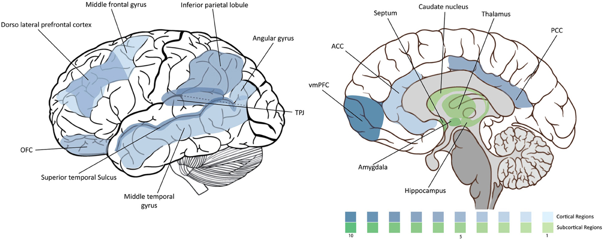 Density of moral neuroscience studies. The intensity of the color is proportional to the number of the citations of the corresponding region in the article.